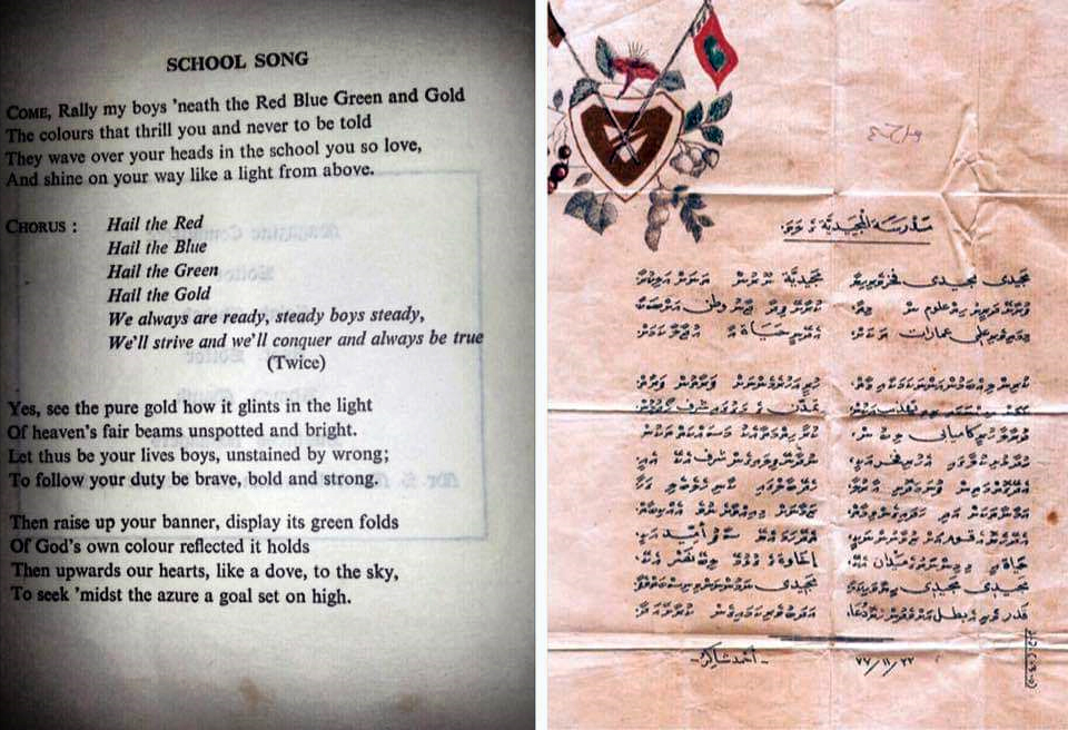 Image containing old and new school song of Majeedhiyya School